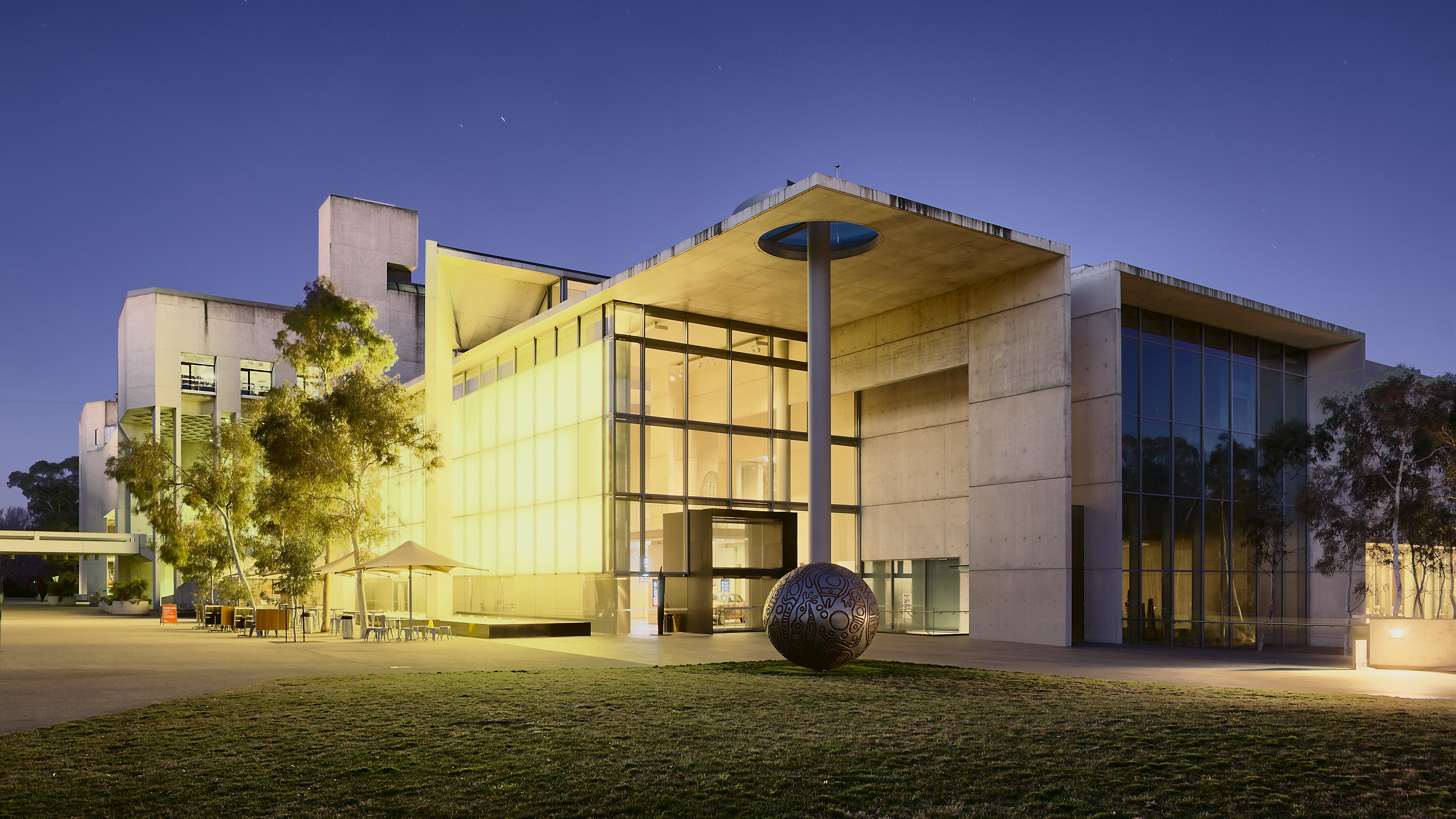 Blue hour photo of the National Gallery of Australia at dusk, Canberra ACT. This image is a HDR composite, stitched from 5 different exposures.